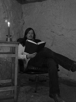 Daniel Frank